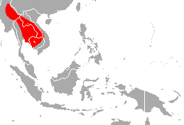 Shamel's Horseshoe Bat (Rhinolophus shameli) range